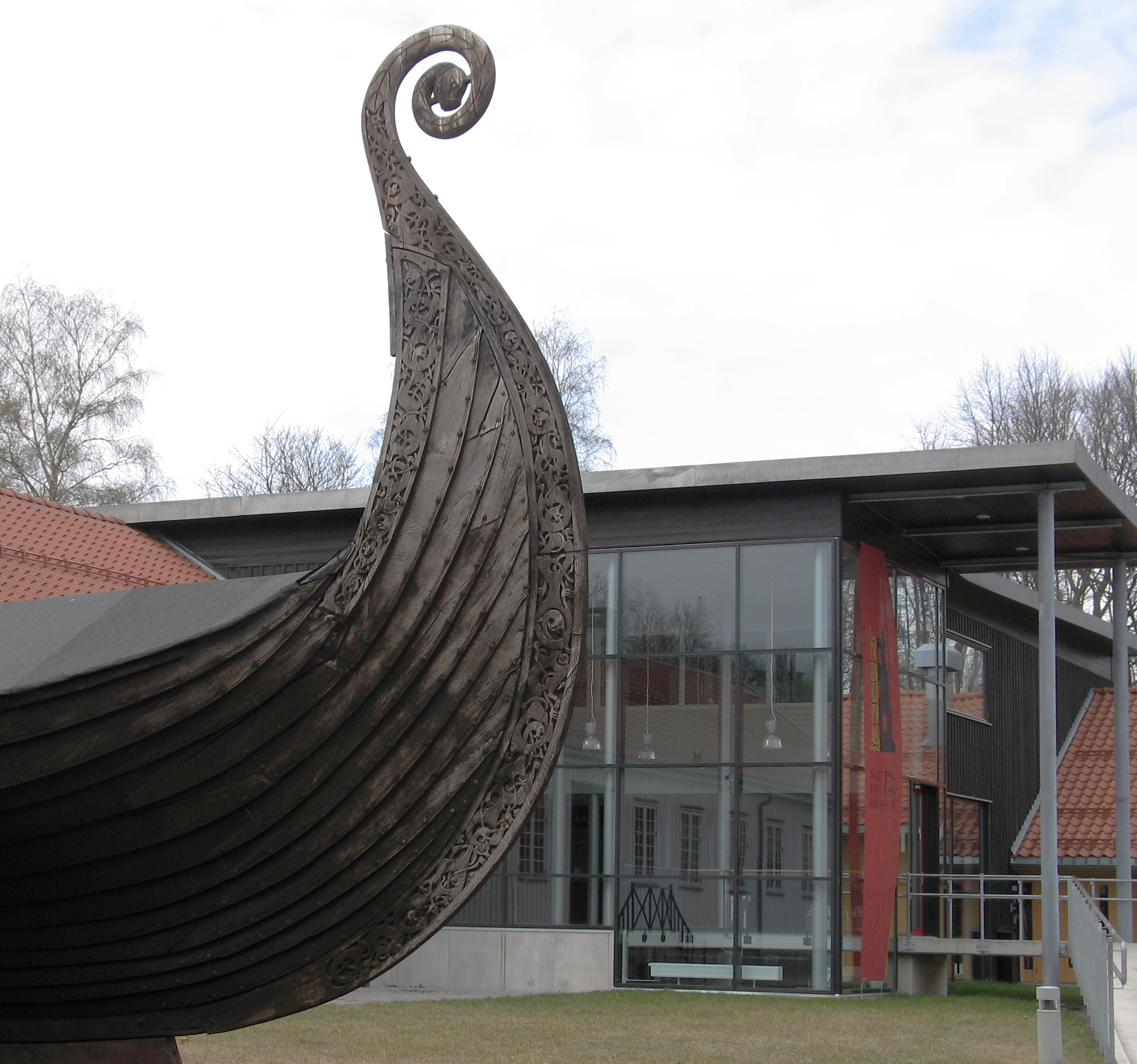 Slottsfjellmuseet, copy of Osebergskipet in front of the museum